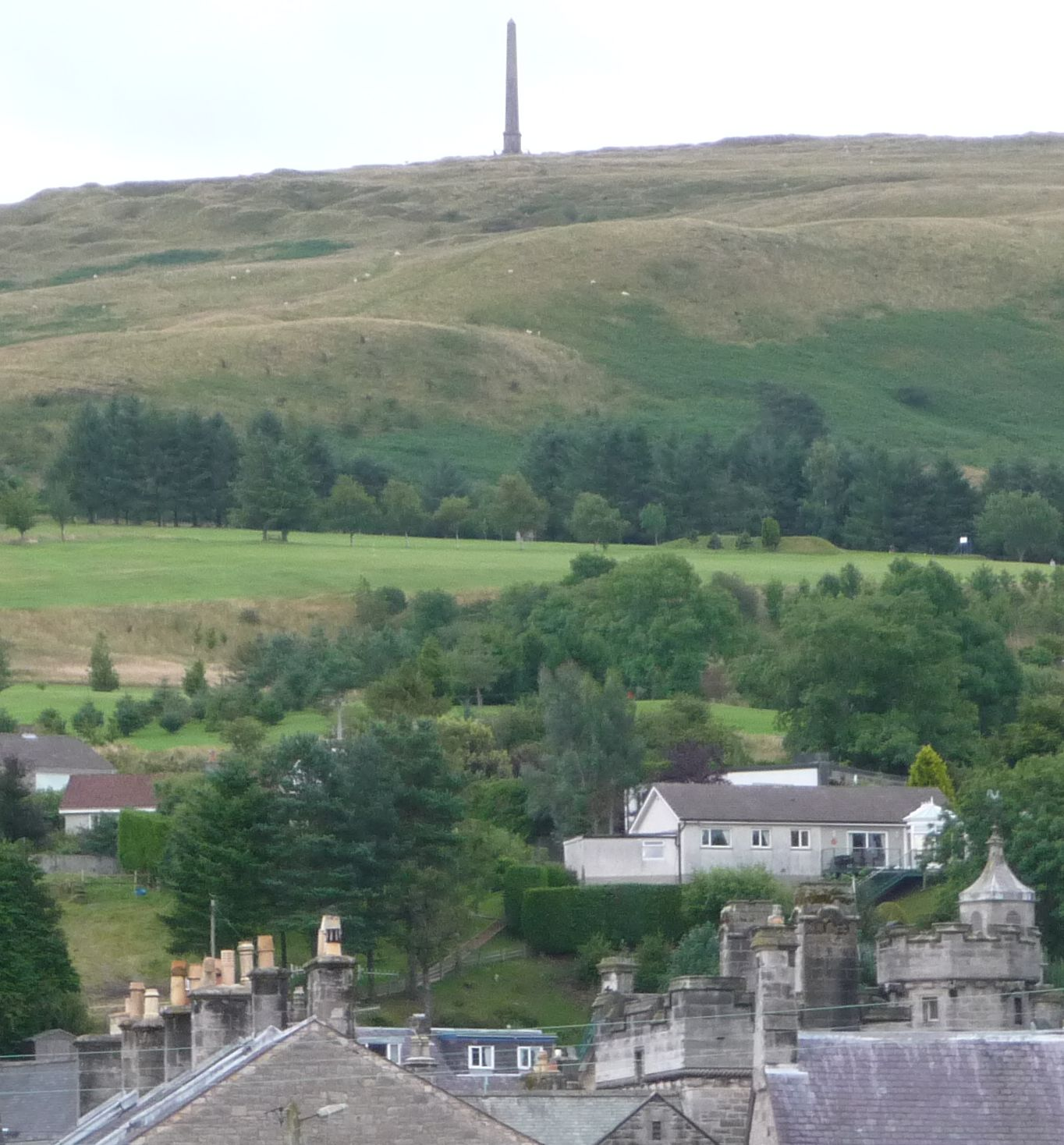 Langholm, Dumfries and Galloway, Scotland